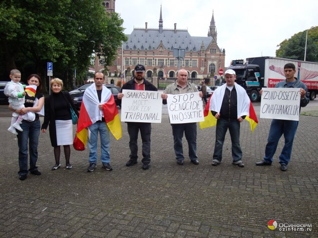 12 August 2008. Ossetians living in Netherlands protest against Georgian attack in The Hague with banners "Stop genocide in Ossetia"